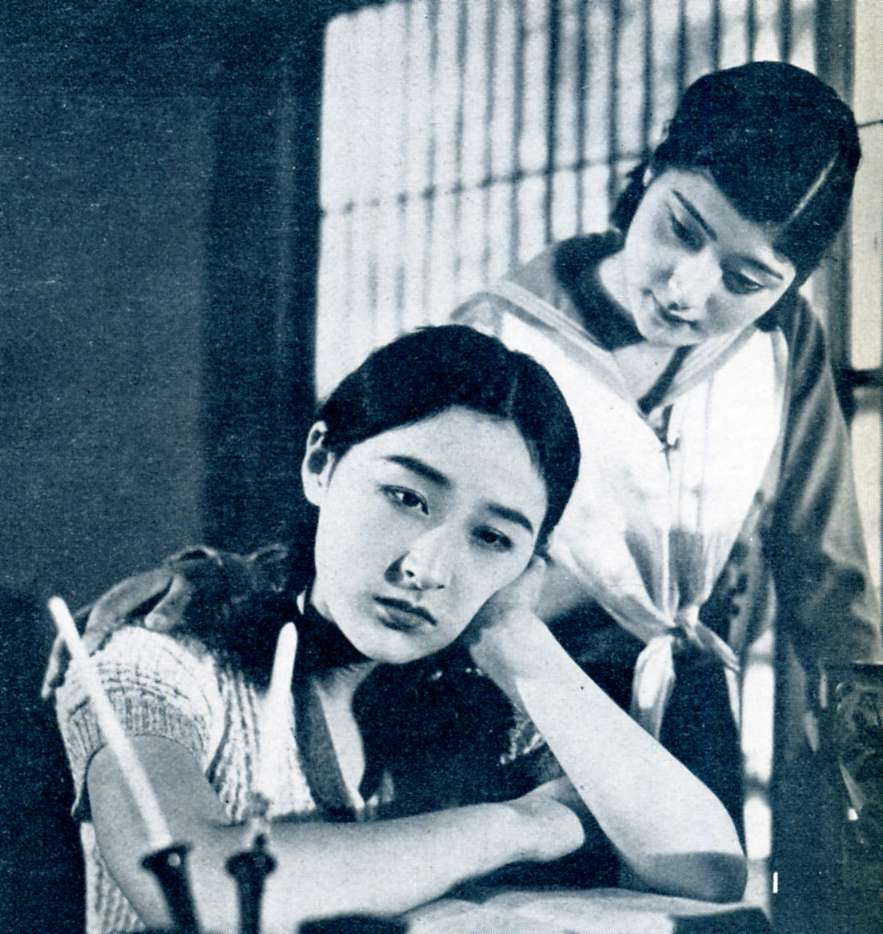 From L to R: Yumeko Aizome and Sanae Takasugi in "Tonari no Yae chan" (1934)